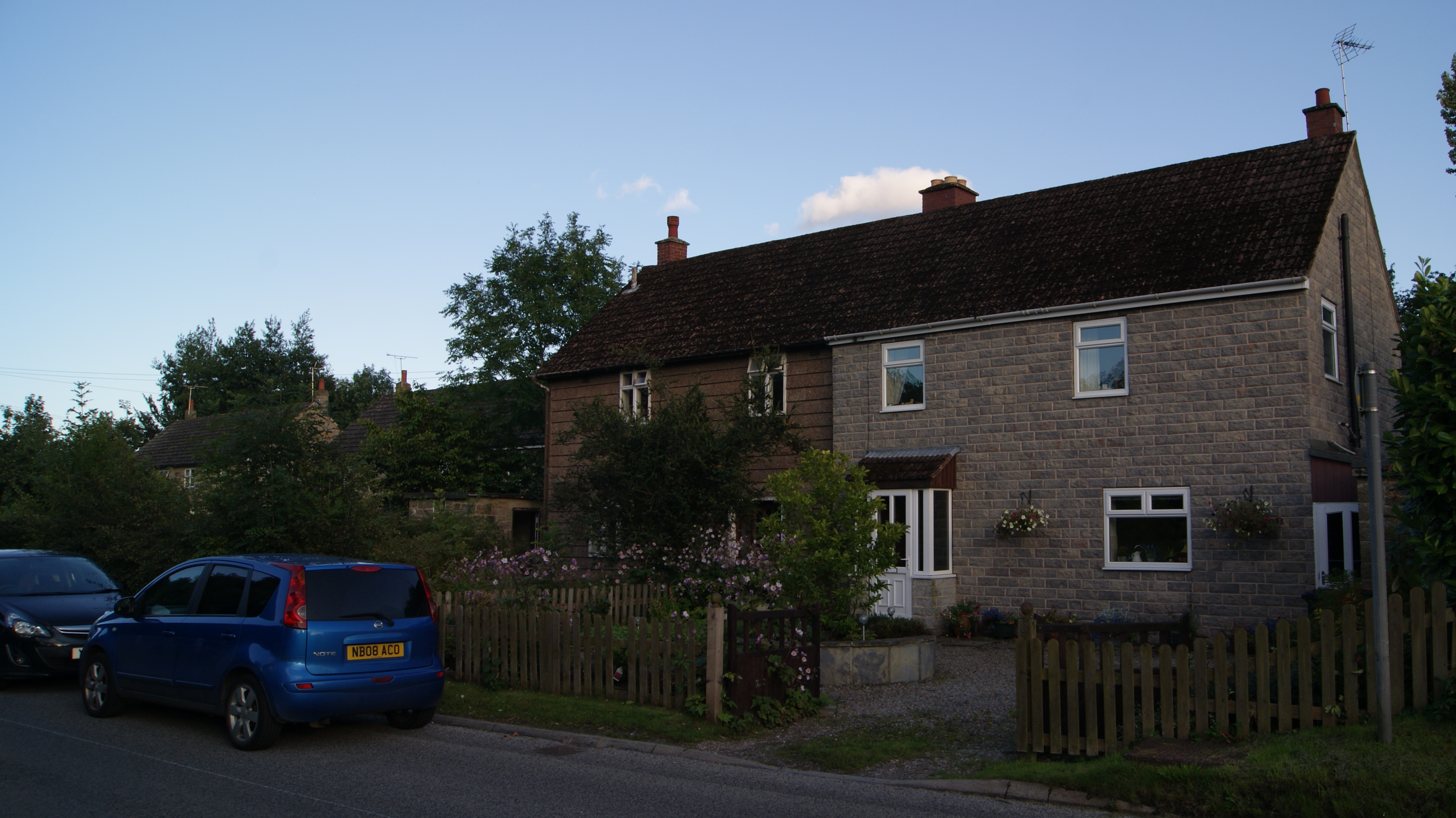 Airey houses (one reclad one original), Main Street, Sicklinghall, North Yorkshire. Taken on the evening of Wednesday the 9th of August 2017.